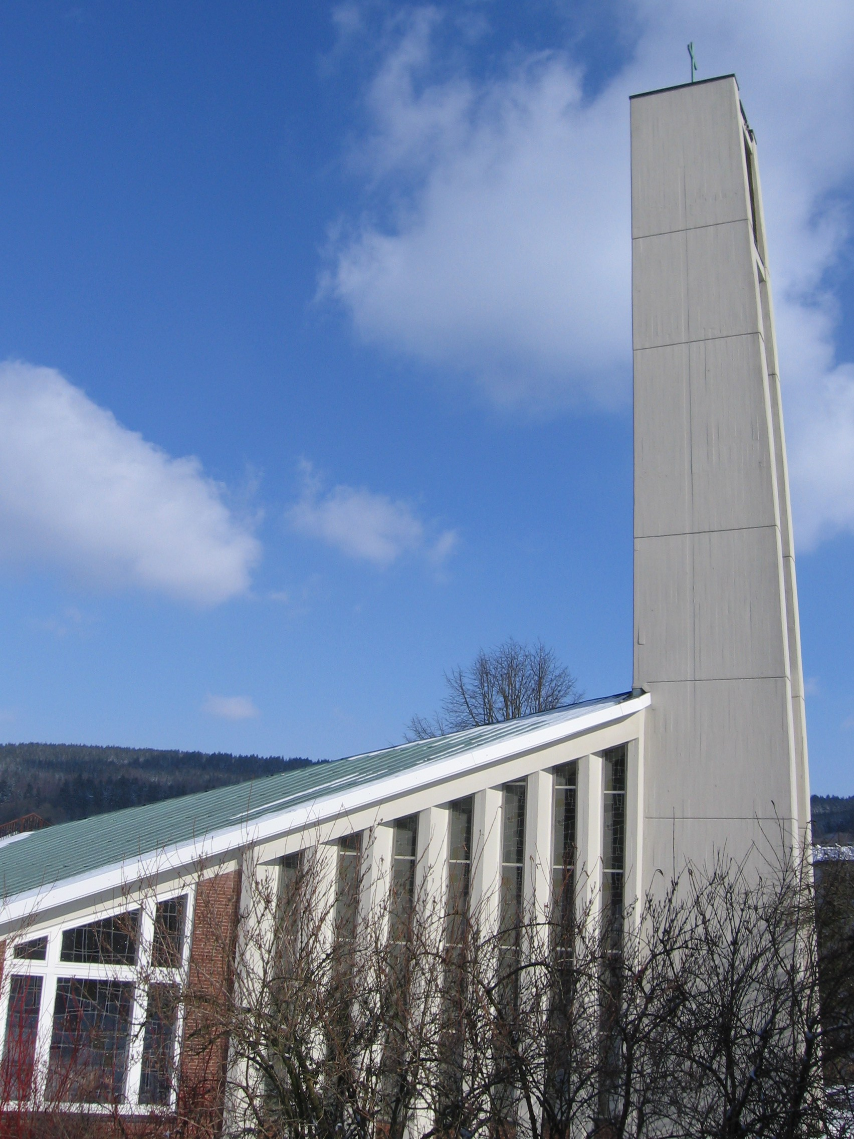 Church of the German village Veldrom.